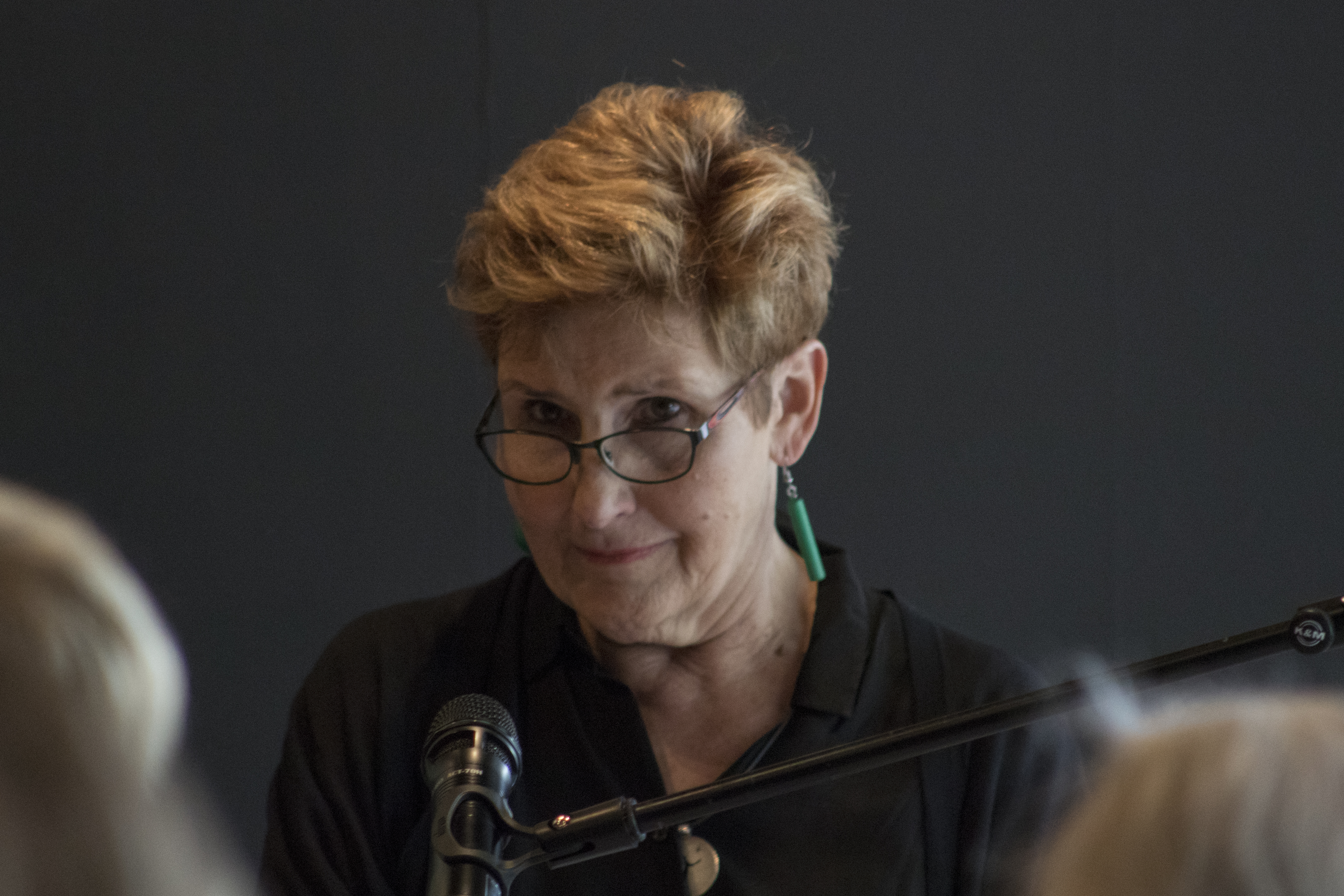 Estonian writer Krista Kaer in 2019, at HeadRead literary festival in Tallinn